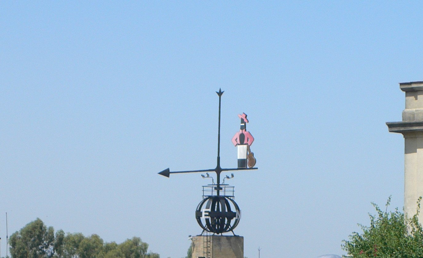 Guinness record largest working wind vane in the world